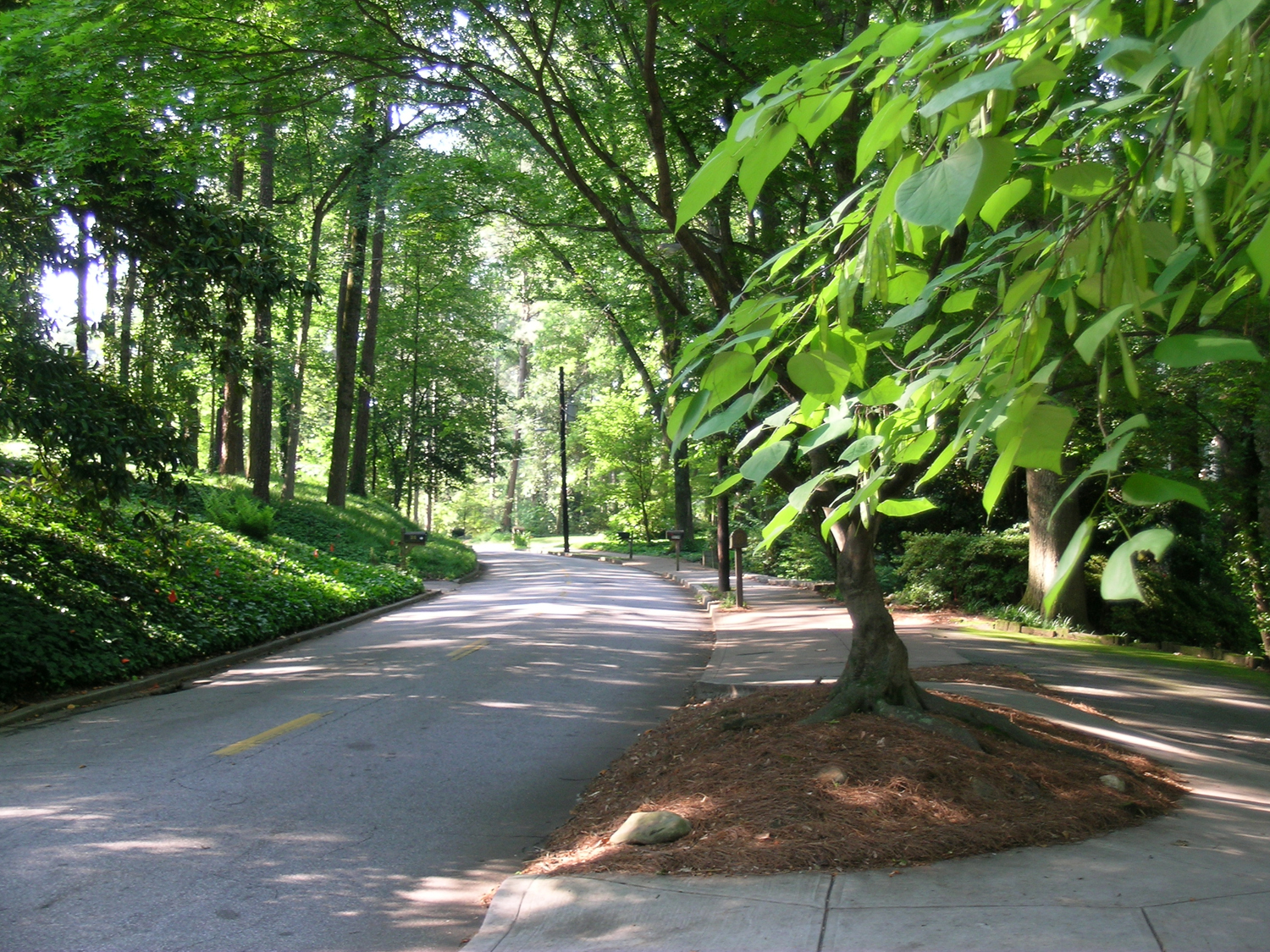 Looking south on West Roxboro Road, Pine Hills, Atlanta, US. May 2010.